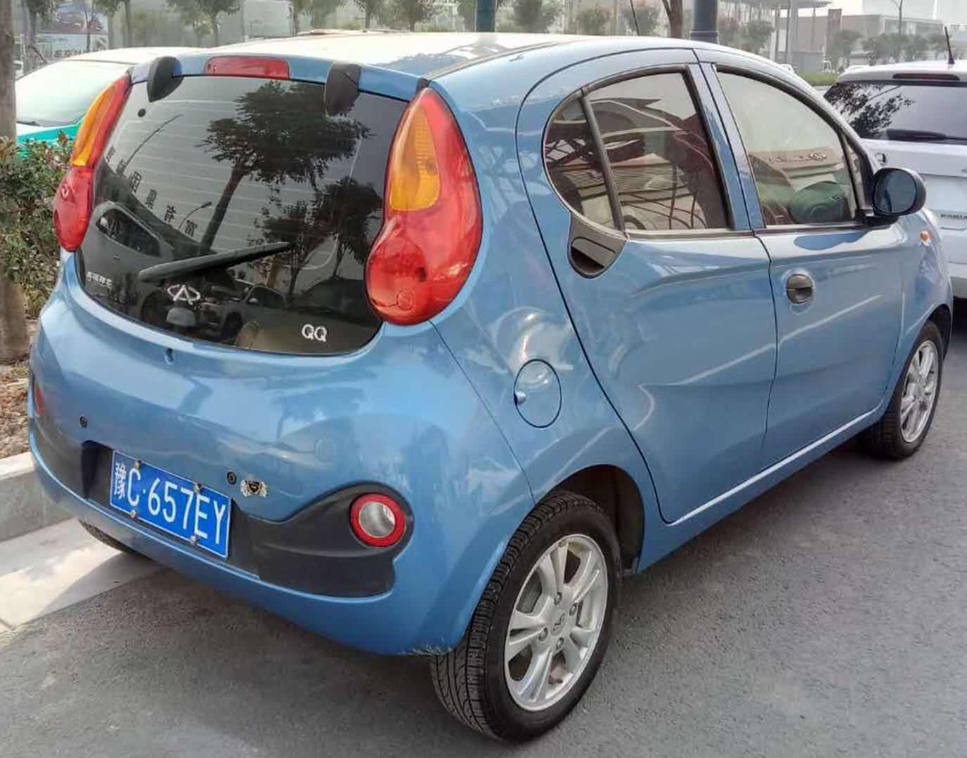 In Henan Province, China